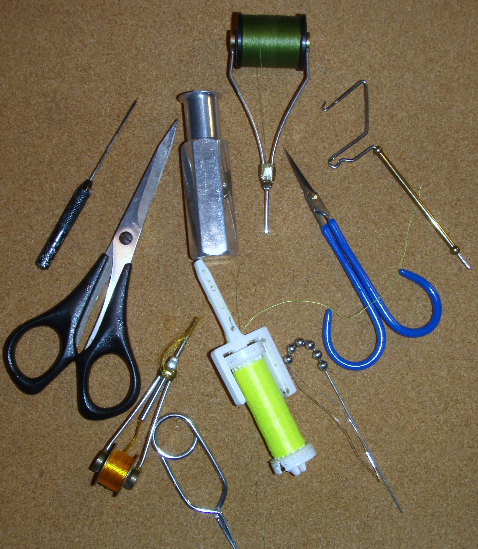 Selected Fly Tying Tools